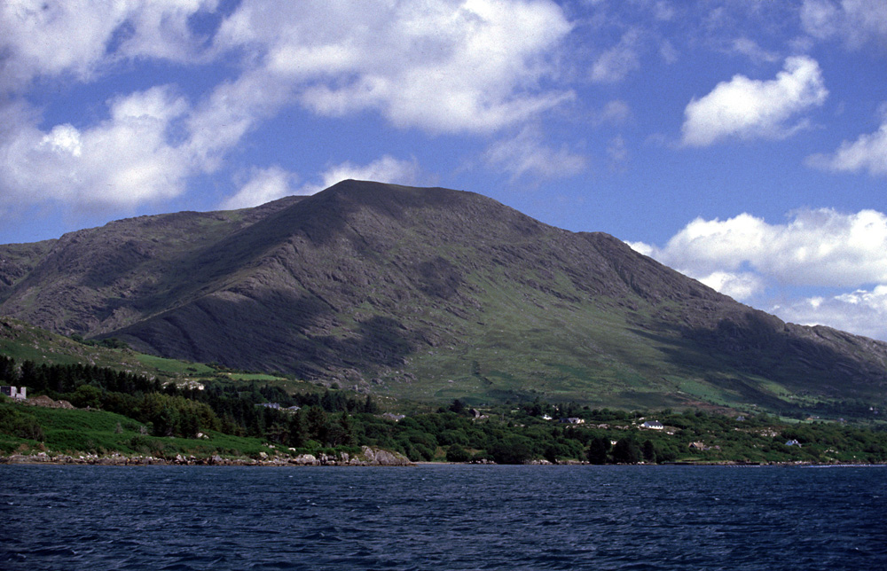 Bantry Bay, IrelandHungry Hill, Cork, Ireland